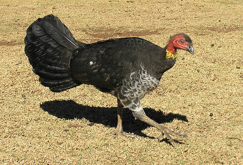 Australian Brush turkey, Lamington National Park, Queensland